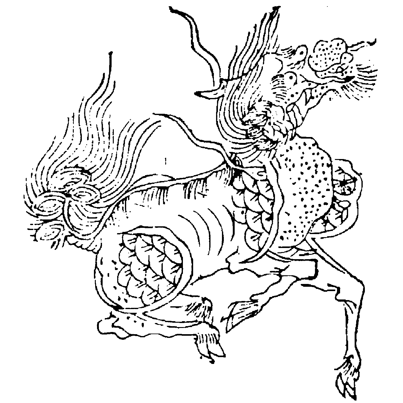 An image of a qilin as depicted in the work Sancai Tuhui (三才圖會) from the Ming dynasty